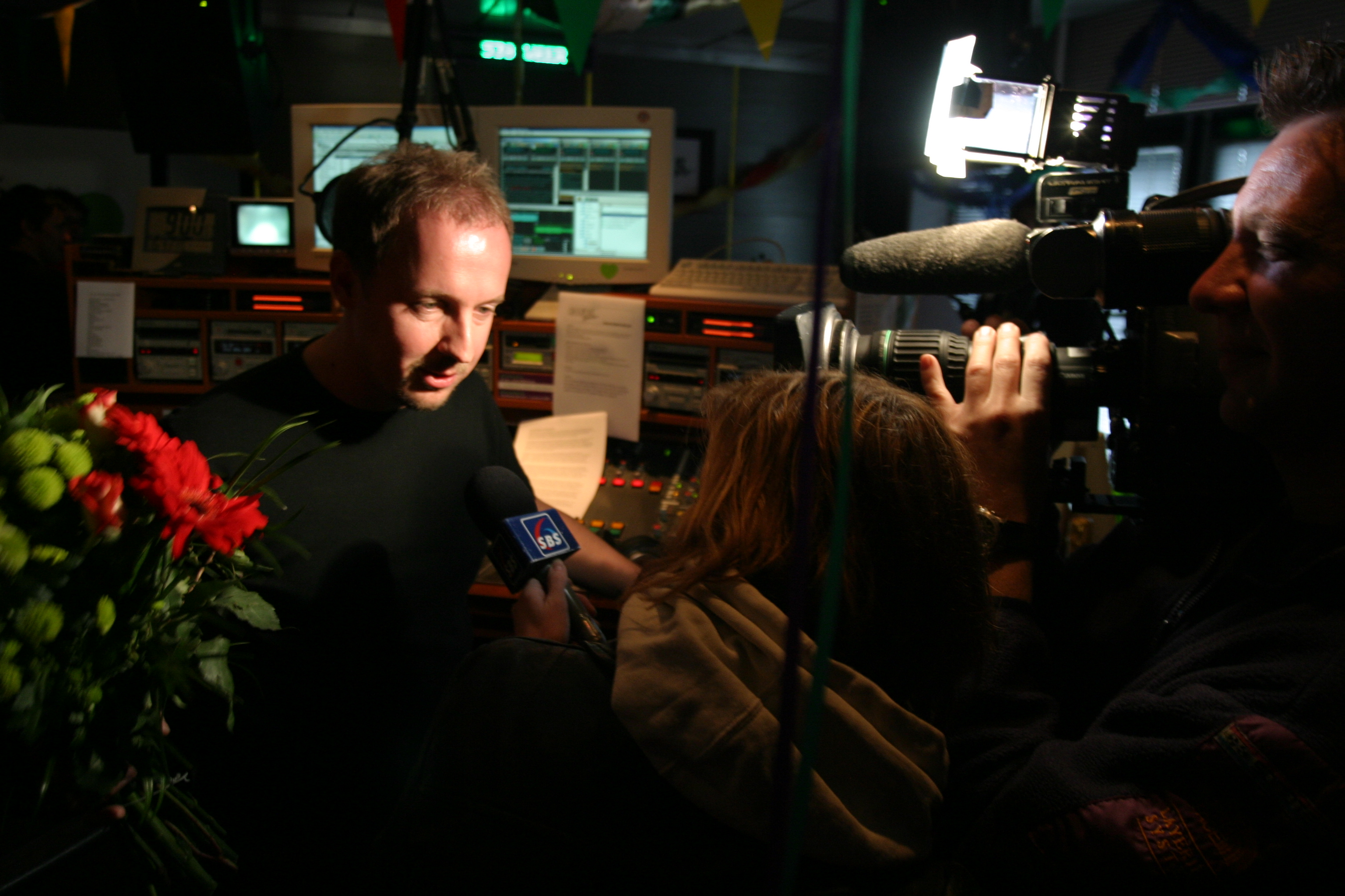 SBS Shownieuws interviewt Edwin